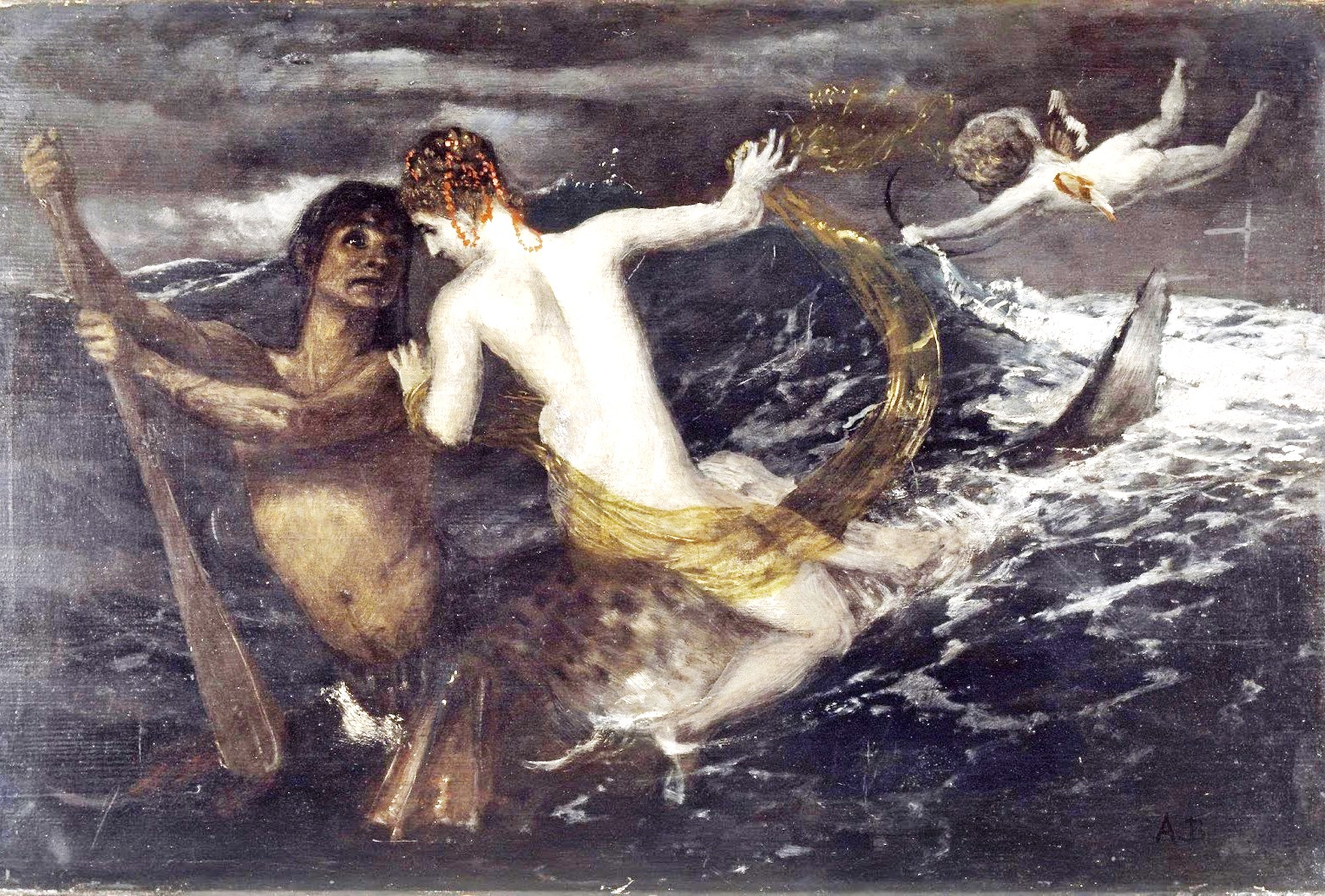 Arnold Böcklin's Triton and Nereid (1875), oil paint on wood